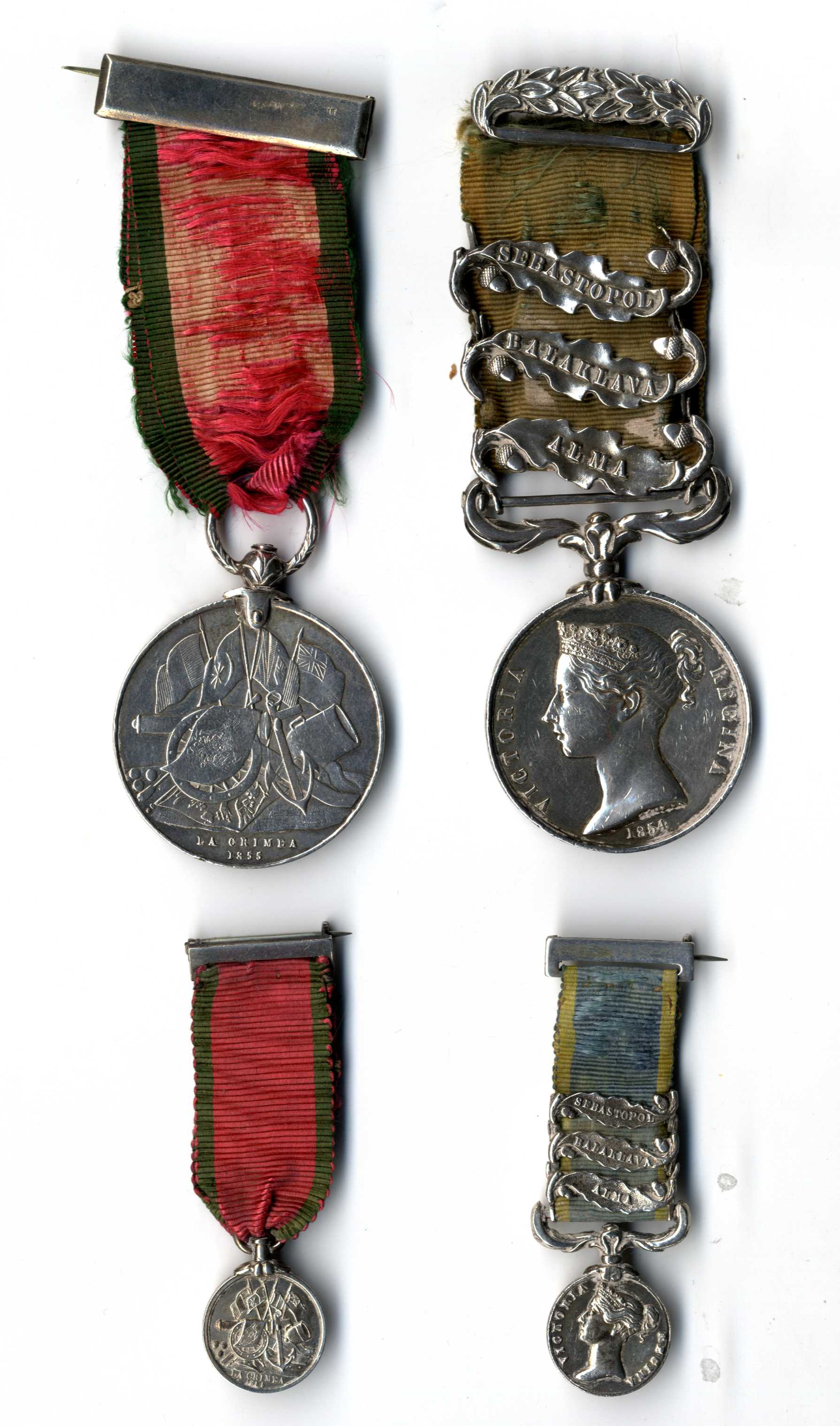 Medals awarded to John Ashley Kilvert, a former Mayor of Wednesbury, who fought in the Charge of the Light Brigade. Left= Turkish Crimean War Medal (Sardinian variant); Right= British Crimea Medal with bars for Alma, Balaklava and Sebastopol.